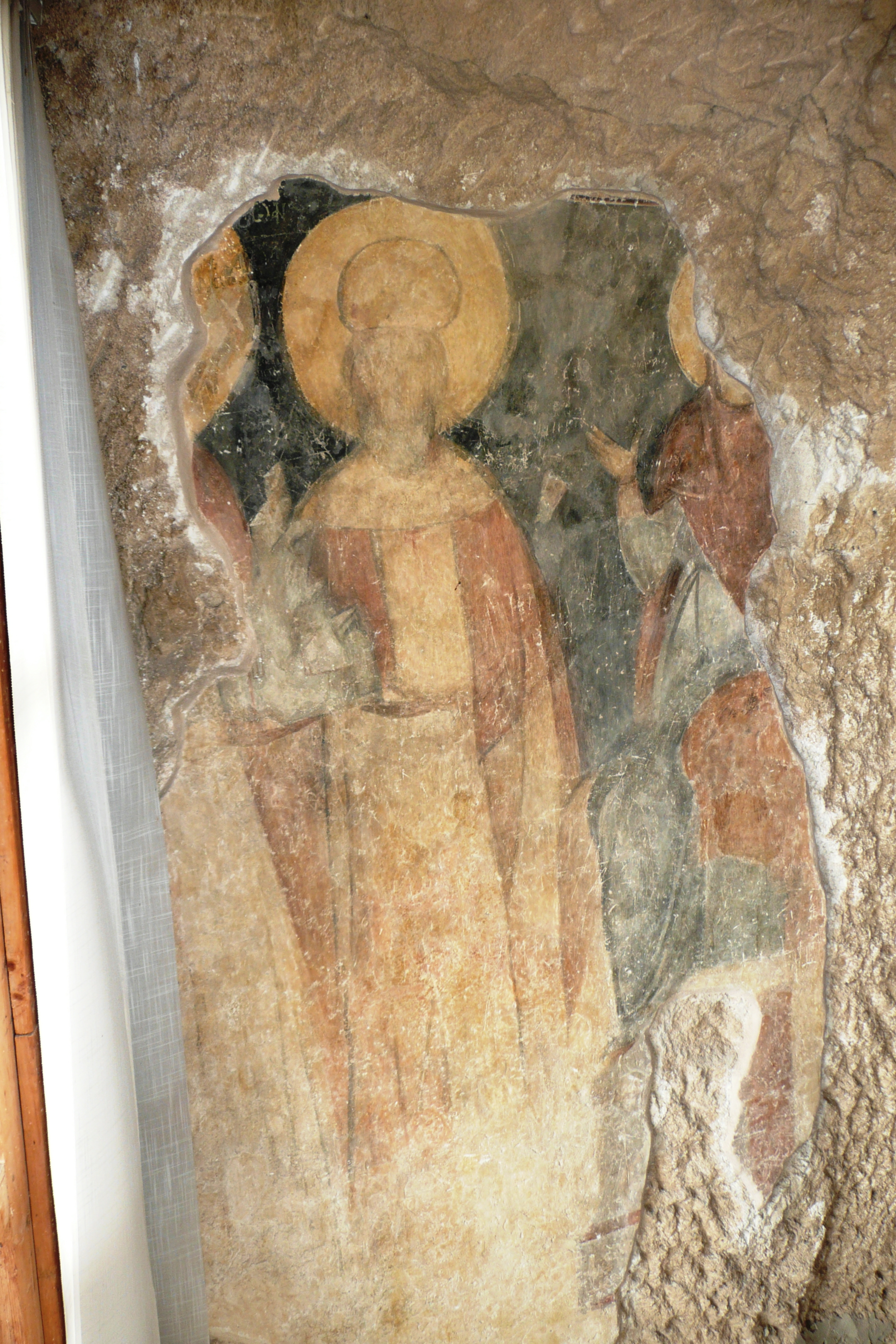 Tsar John Alexander of Bulgaria (1331-1371) portrayed as a donator of the Ivanovo Rock church near Russe (NE Bulgaria)